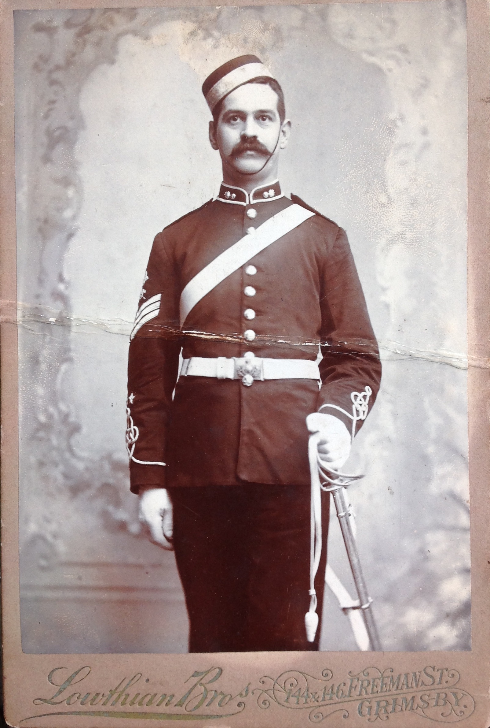 Sergeant of the 1st Lincolnshire Volunteer Artillery, c1895. Photograph by Lowthian Brothers, 144 and 146 Freeman St, Grimsby